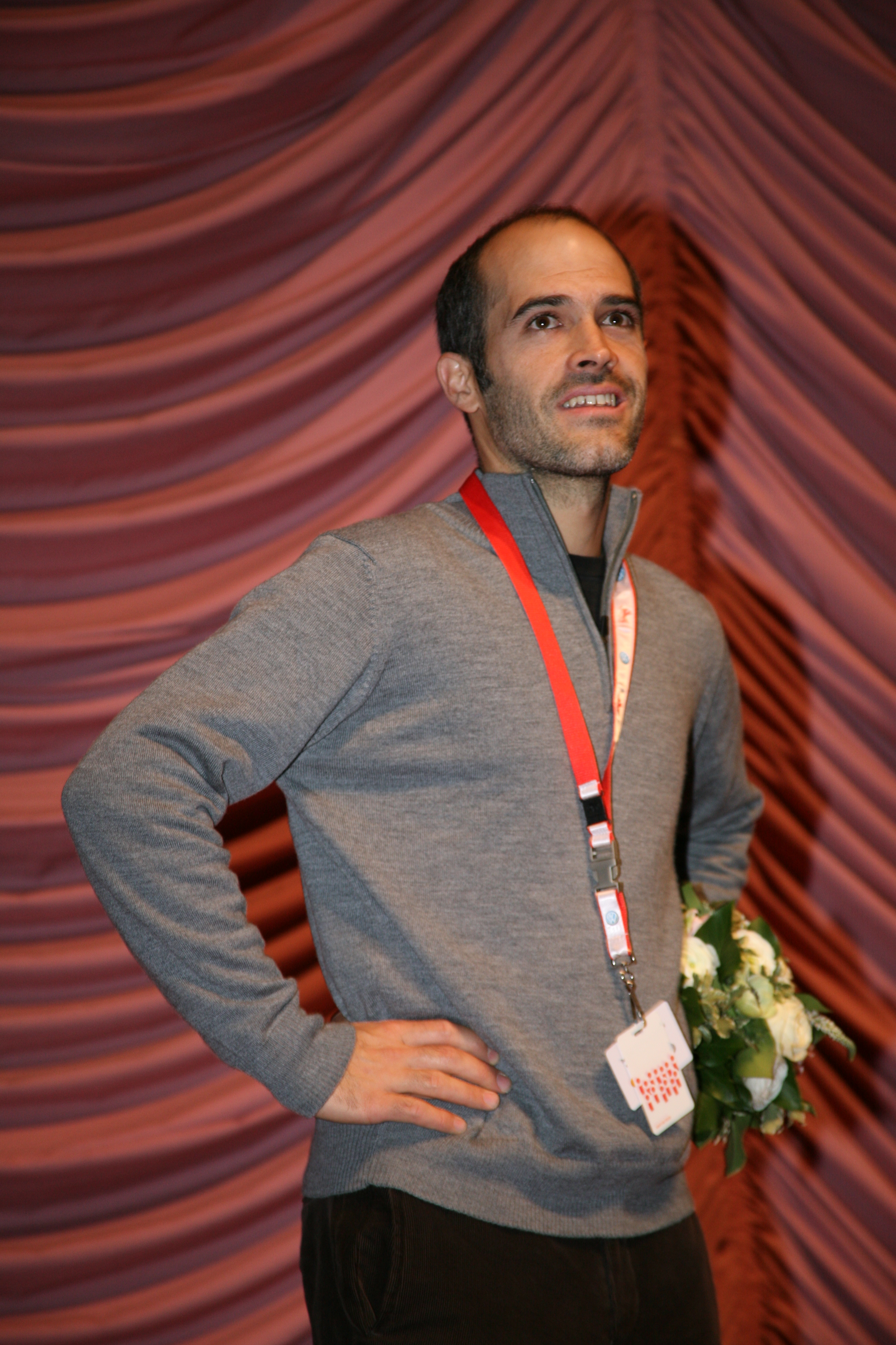 Festival de Berlin - Berlinale 2009